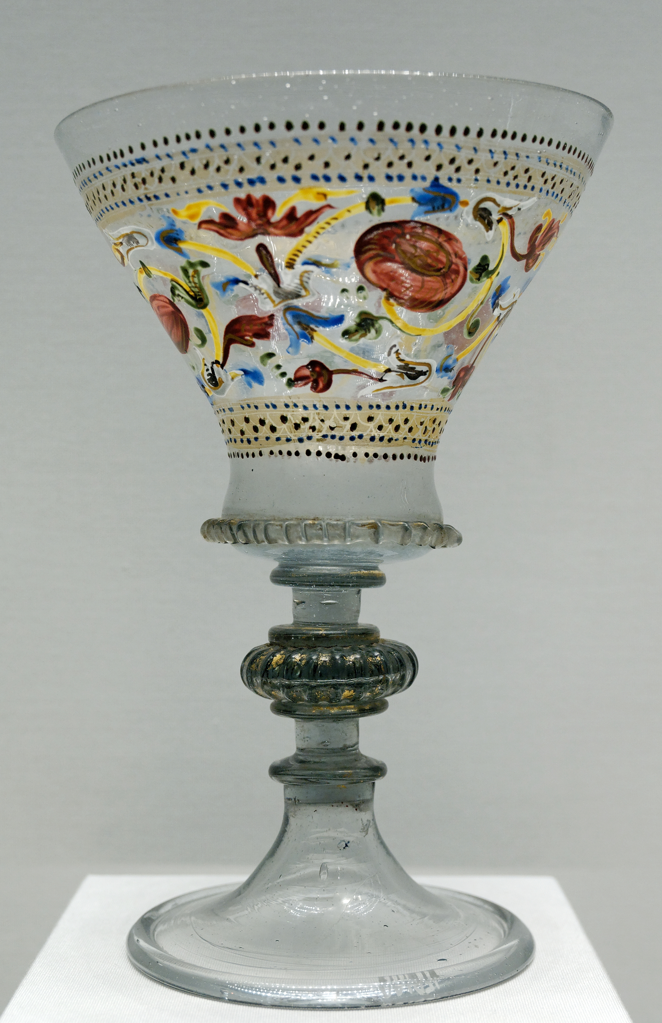 Stem glass. Gilt and enameled blown cristallo glass, Venice, late 15th–early 16th century.